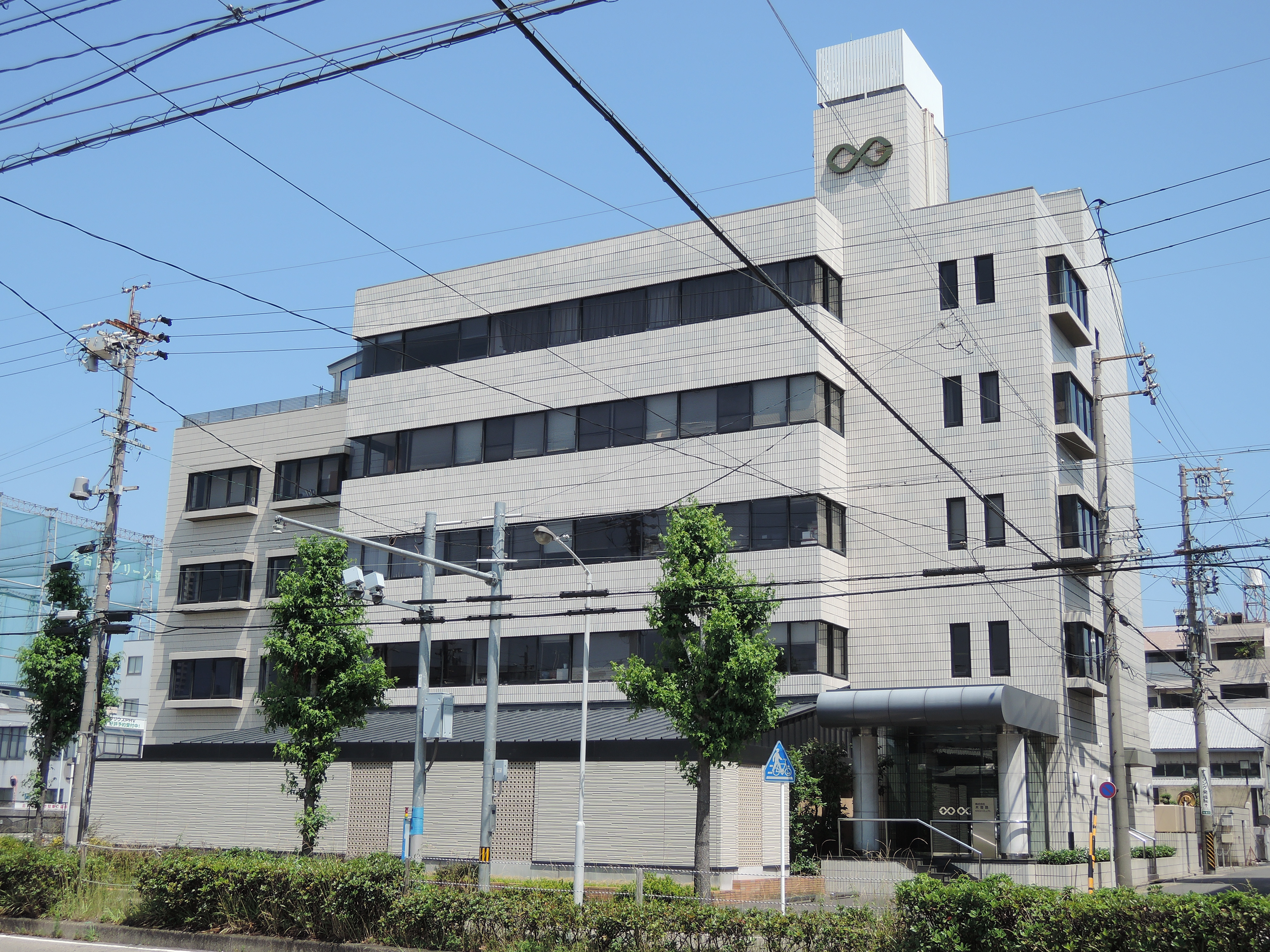 Headquarters of Kisoji Co., Ltd,Aichi prefecture,Japan